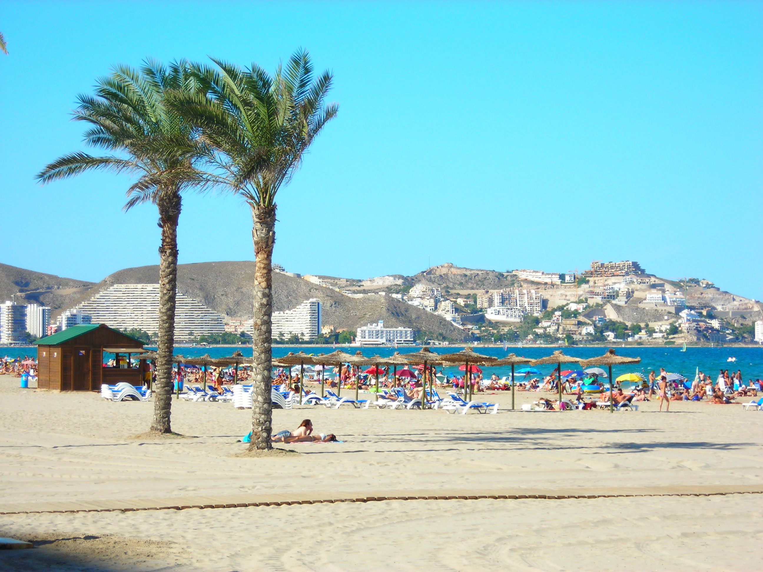 Playa de San Antonio de Cullera